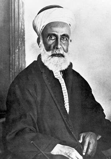 Hussein Bin Ali